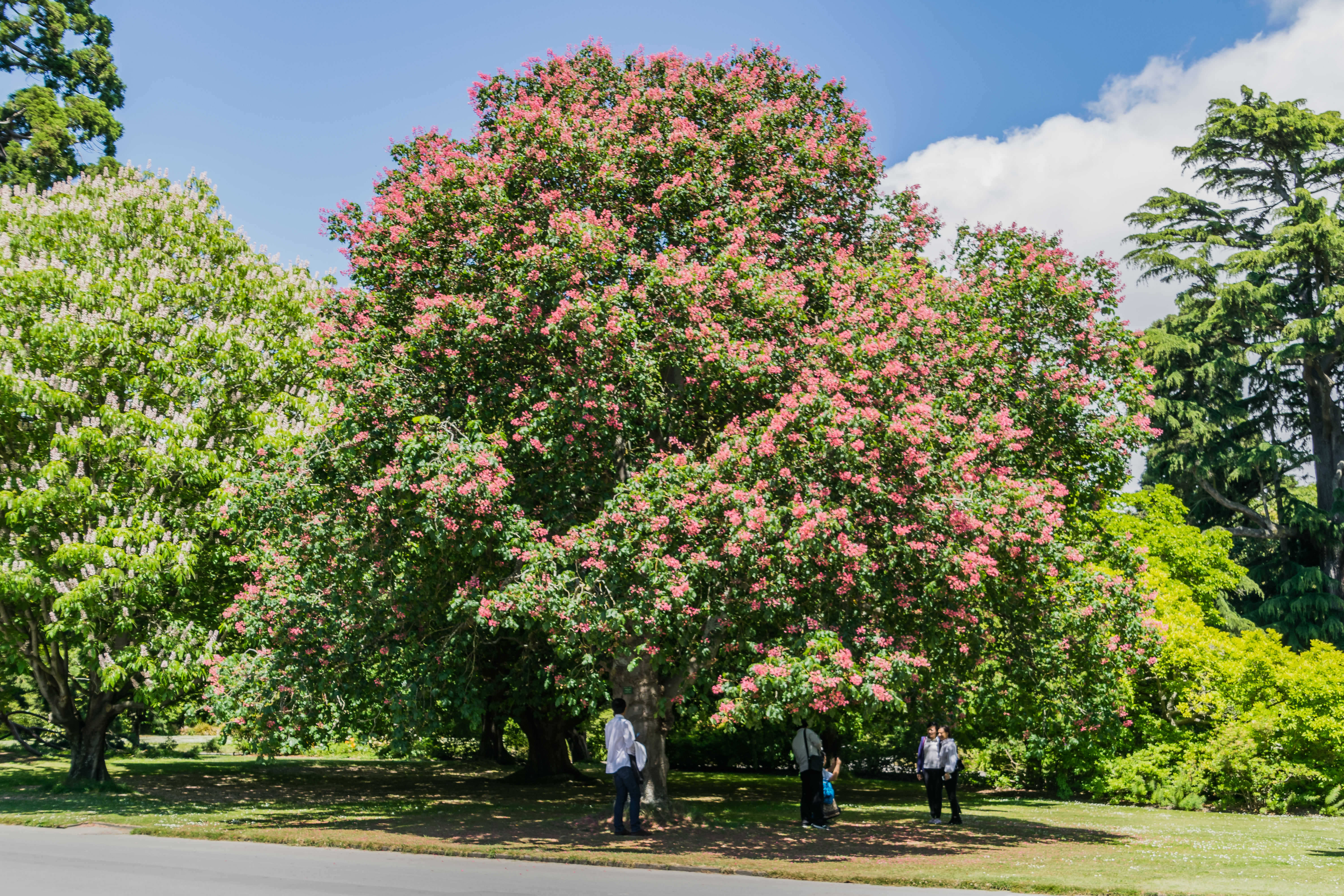 Aesculus × carnea in Christchurch Botanic Gardens in Christchurch, Canterbury Region, New Zealand